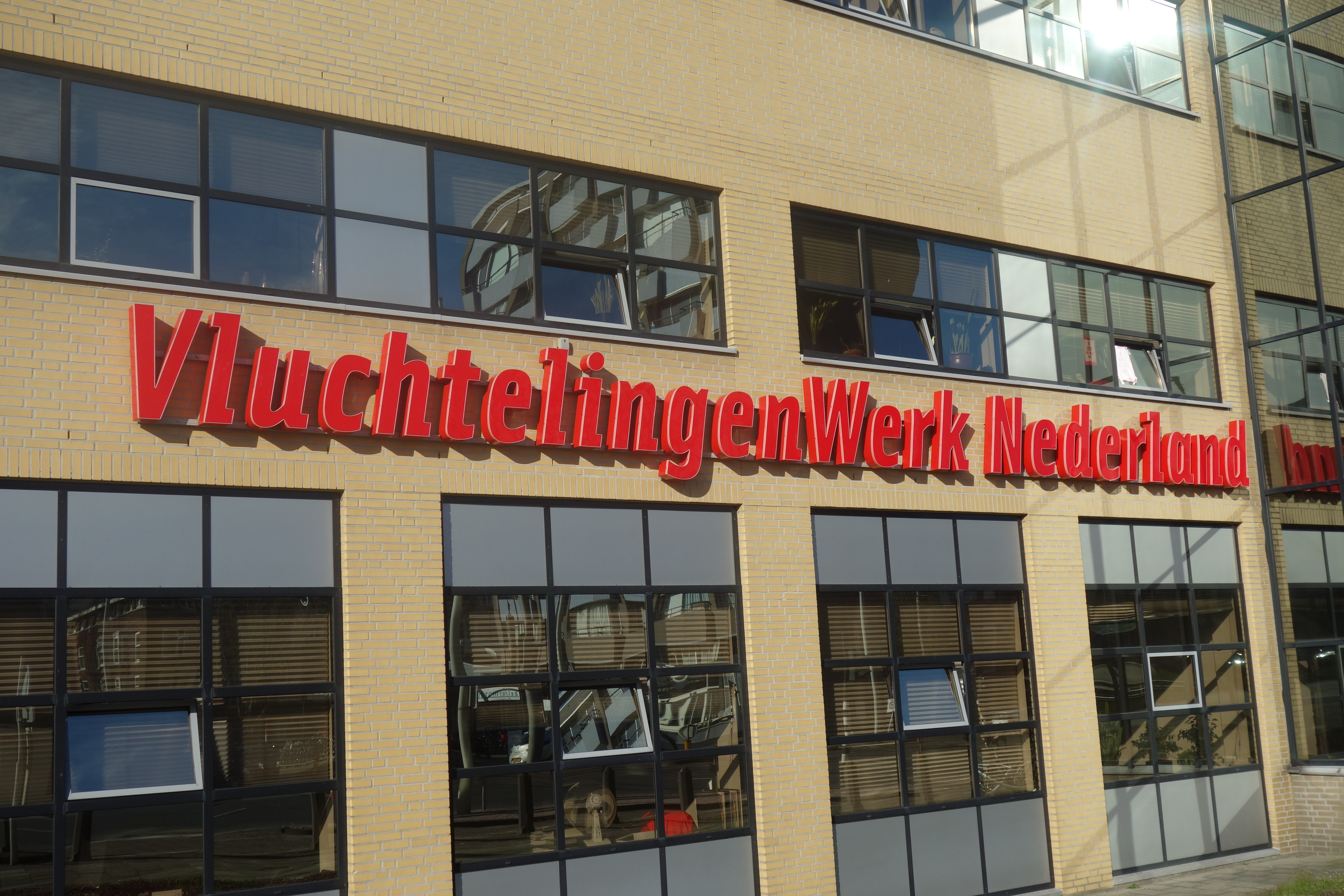 Offices of VluchtelingenWerk Nederland, Amsterdam (the Netherlands)